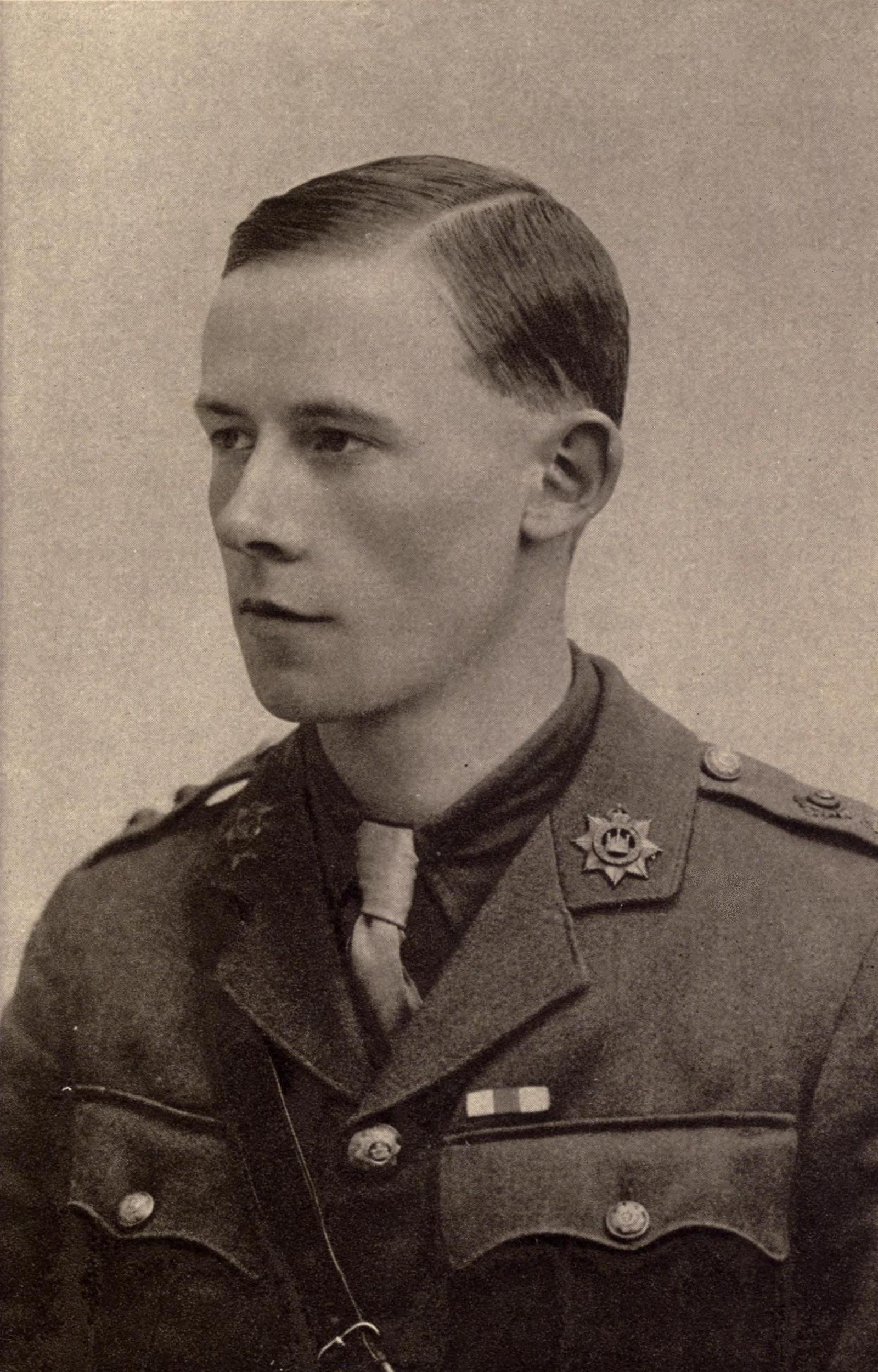 Cropped and retouched version of portrait of British soldier poet William Noel Hodgson (1893-1916). Photo dated to circa 1915 due to presence of MC ribbon on uniform, which was awarded in 1915.